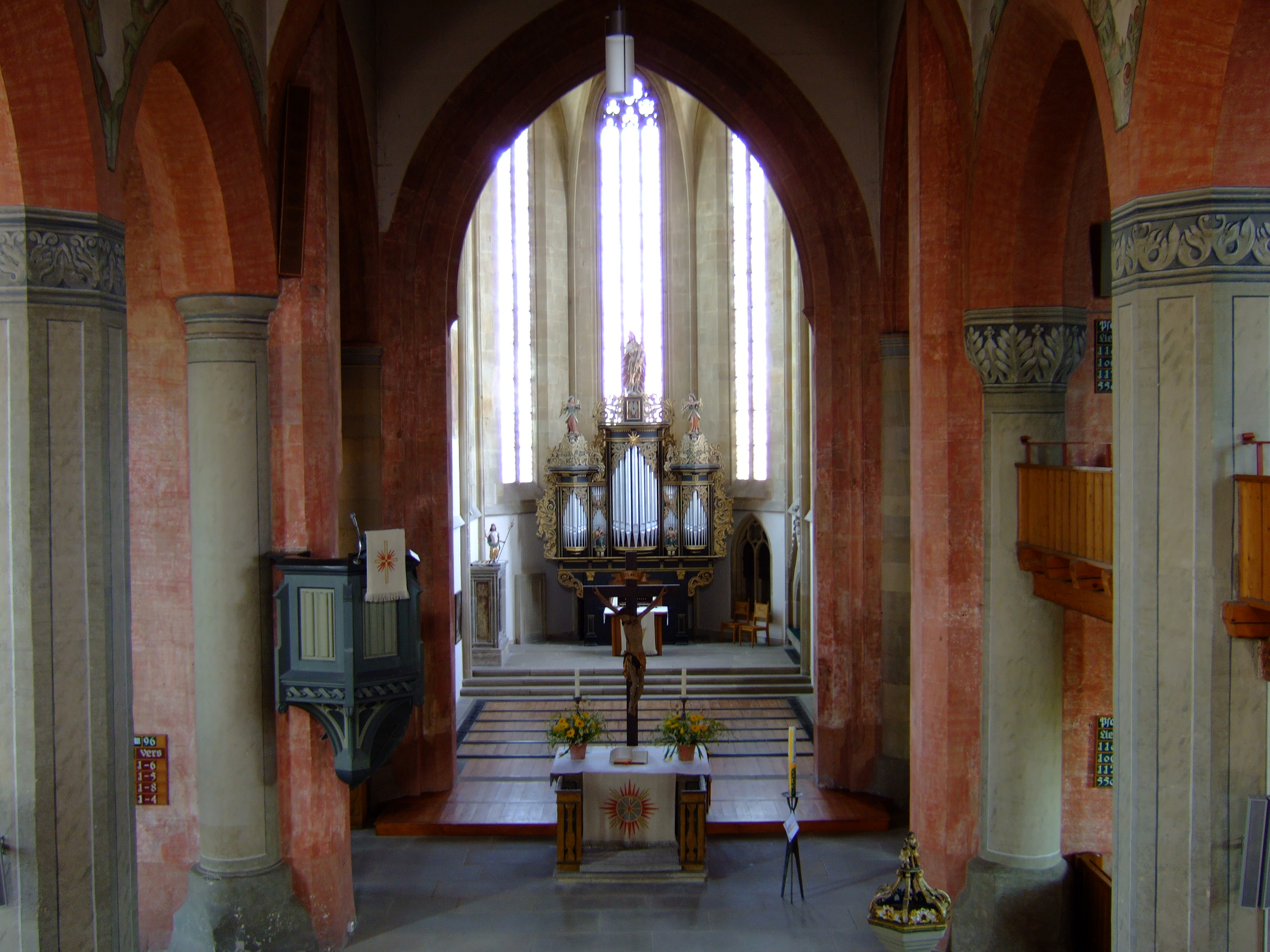 Church „Regiswindiskirche“ in Lauffen am Neckar/Germany, view to the choir